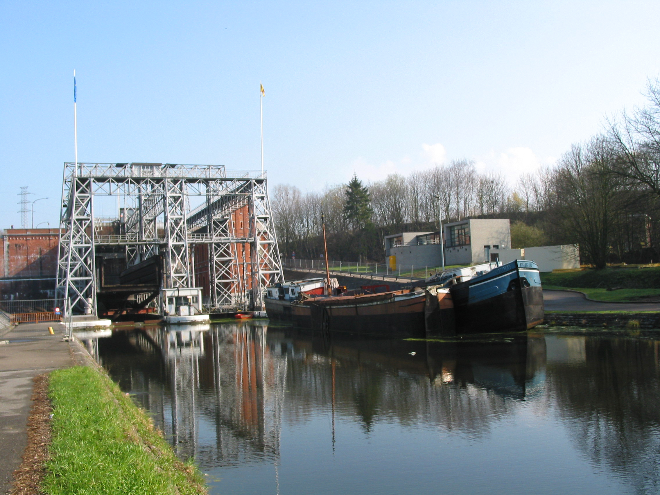 Houdeng-Goegnies (Belgium), the ship elevator N° 1 on the "Canal du Centre". Walon: Oudin-Gôgnîye, (Bèljike), l'assinseûr a batês N° 1 sul "Canal du Centre".